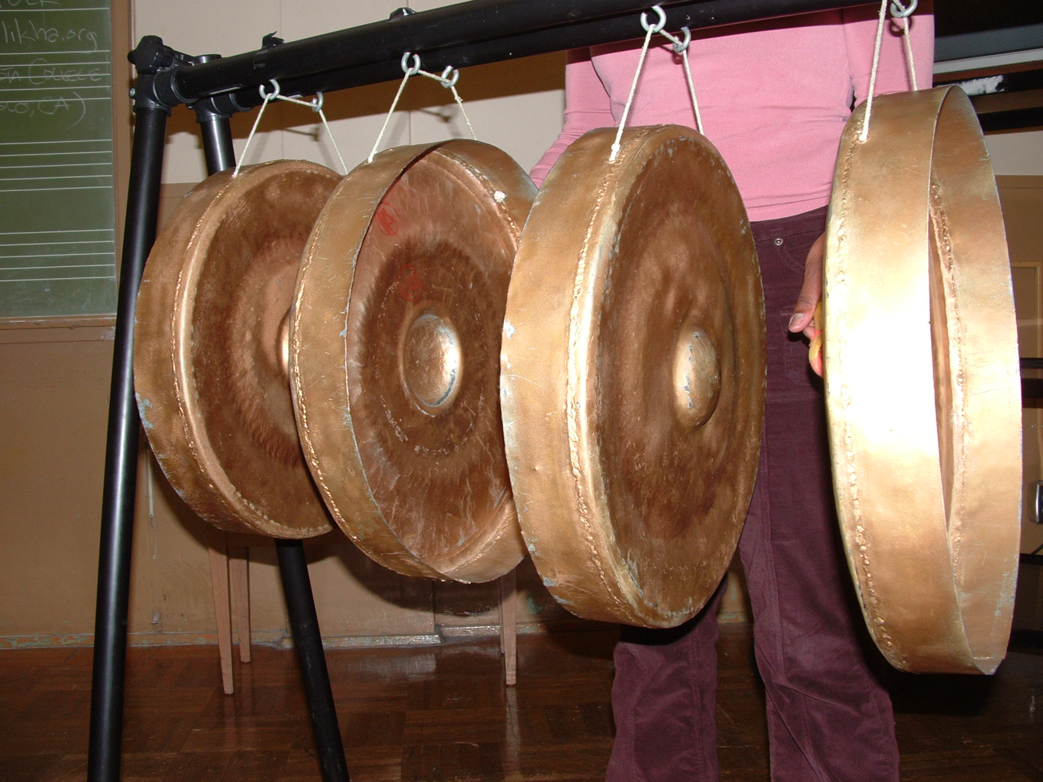 The four Philippine vertically hanged gongs known as the gandingan used as a secondary melodic instrument in the kulintang ensemble, with a student demonstrating proper technique on the instrument.